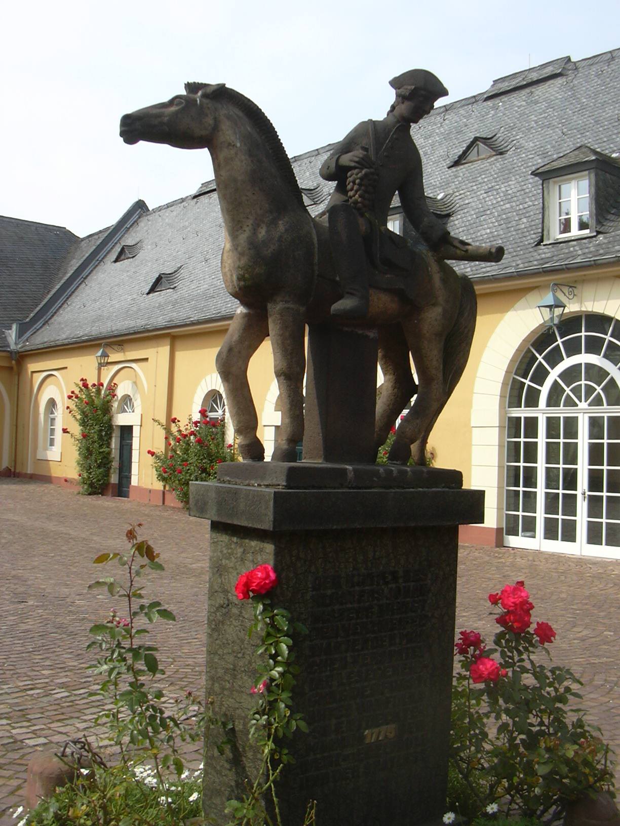 "late vintage courier" monument, Johannisberg Castle, Rhine Valley, Germany